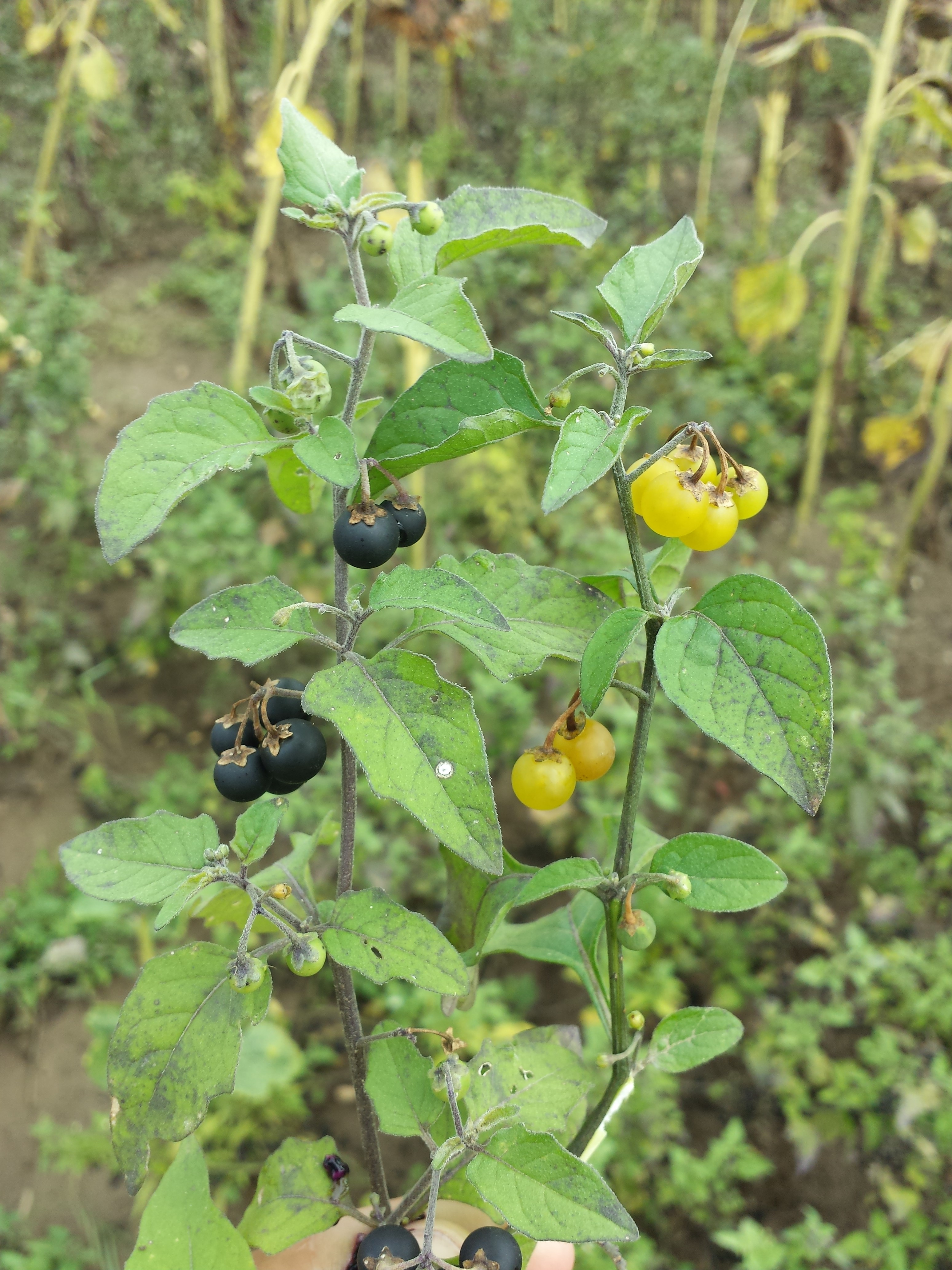 Habitus Taxonym: Solanum nigrum subsp. nigrum and Solanum nigrum subsp. nigrum var. xanthocarpum ss Fischer et al. EfÖLS 2008 ISBN 978-3-85474-187-9 Location: near Schleinbach, district Mistelbach, Lower Austria - ca. 270 m a.s.l. Habitat: field of sunflower